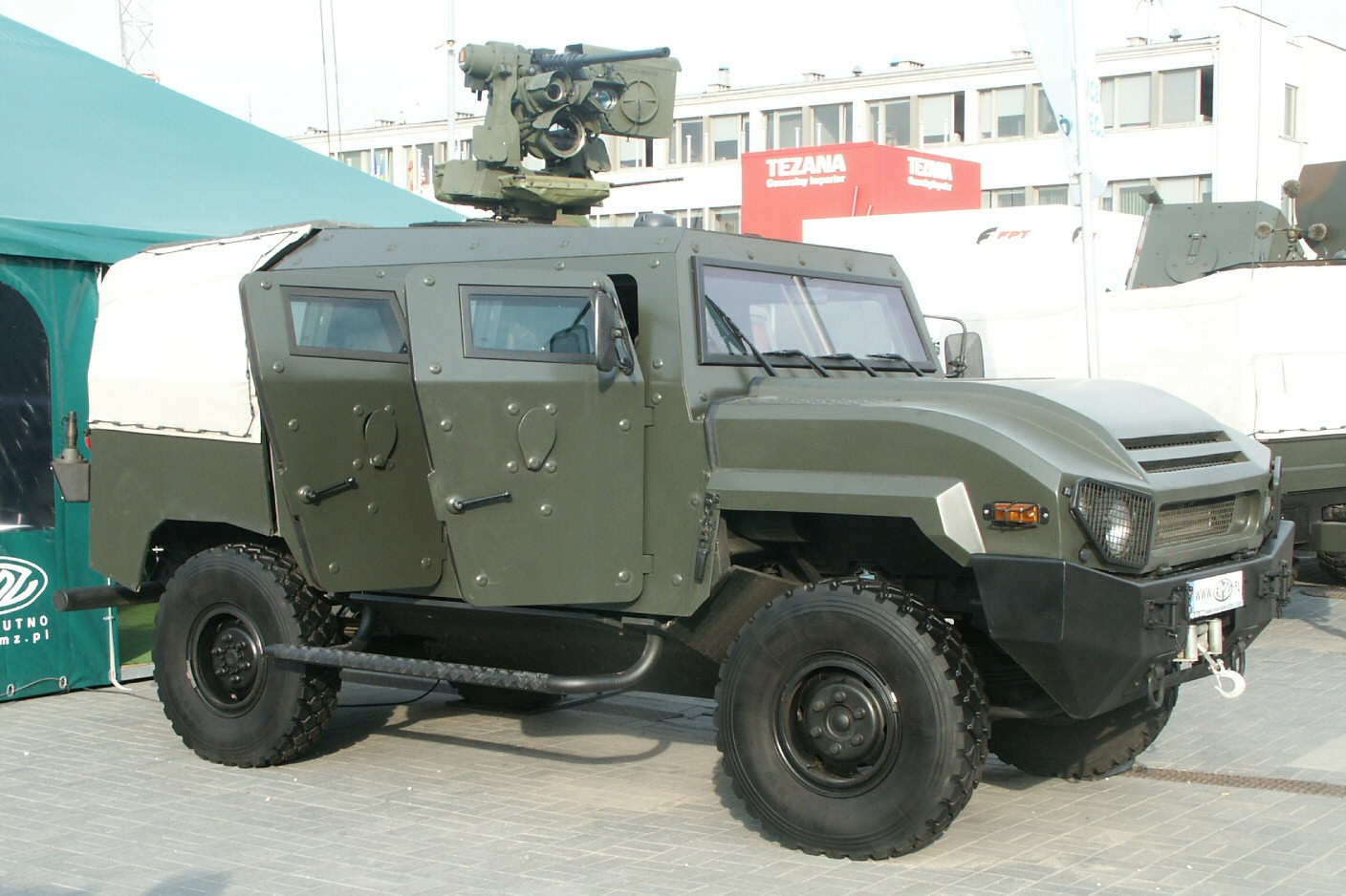 Polish light armoured vehicle Tur prototype, of AMZ Kutno.